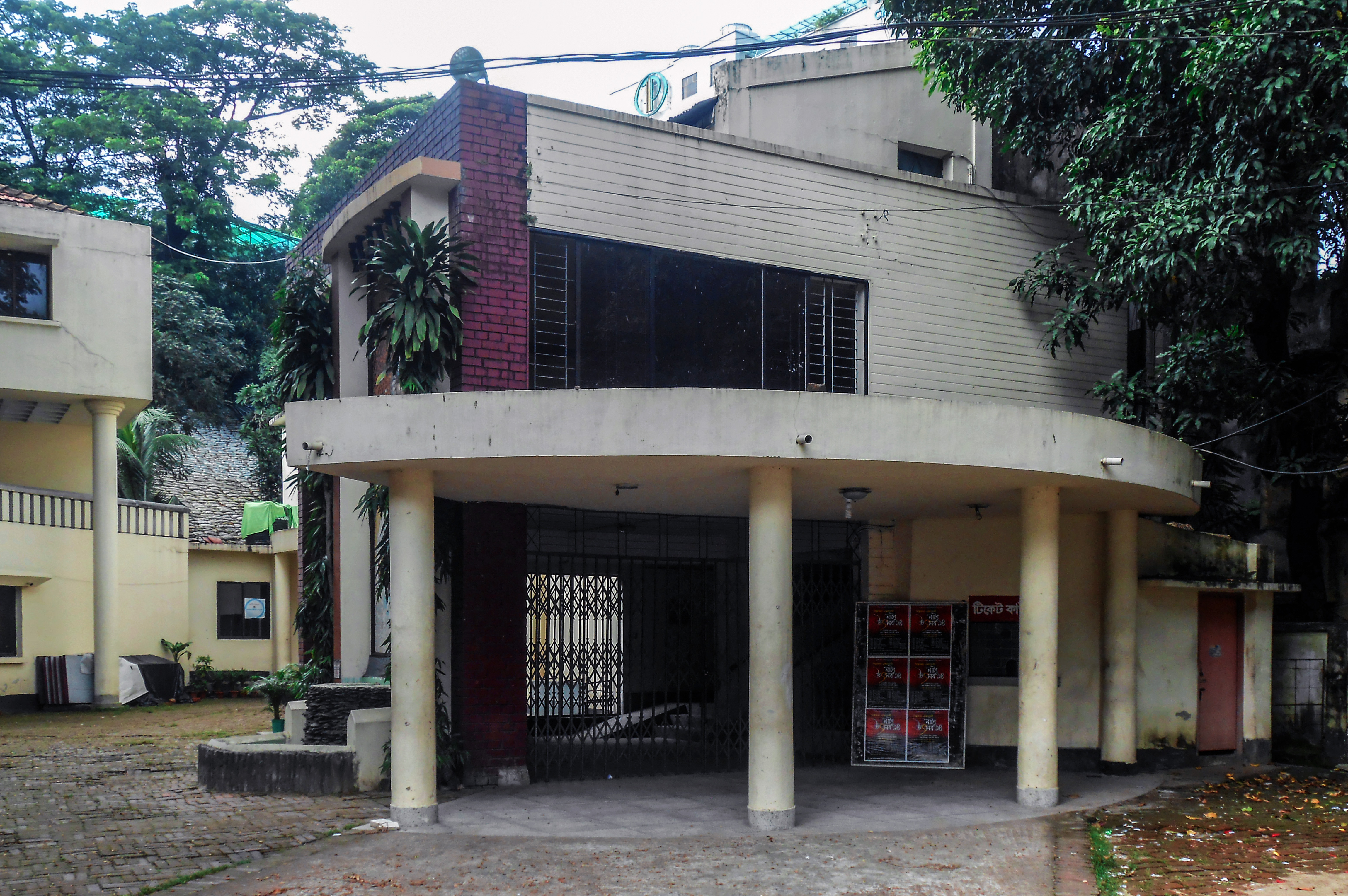 Auditorium, (west front exposure) Zilla Shilpakala Academy, Chittagong.